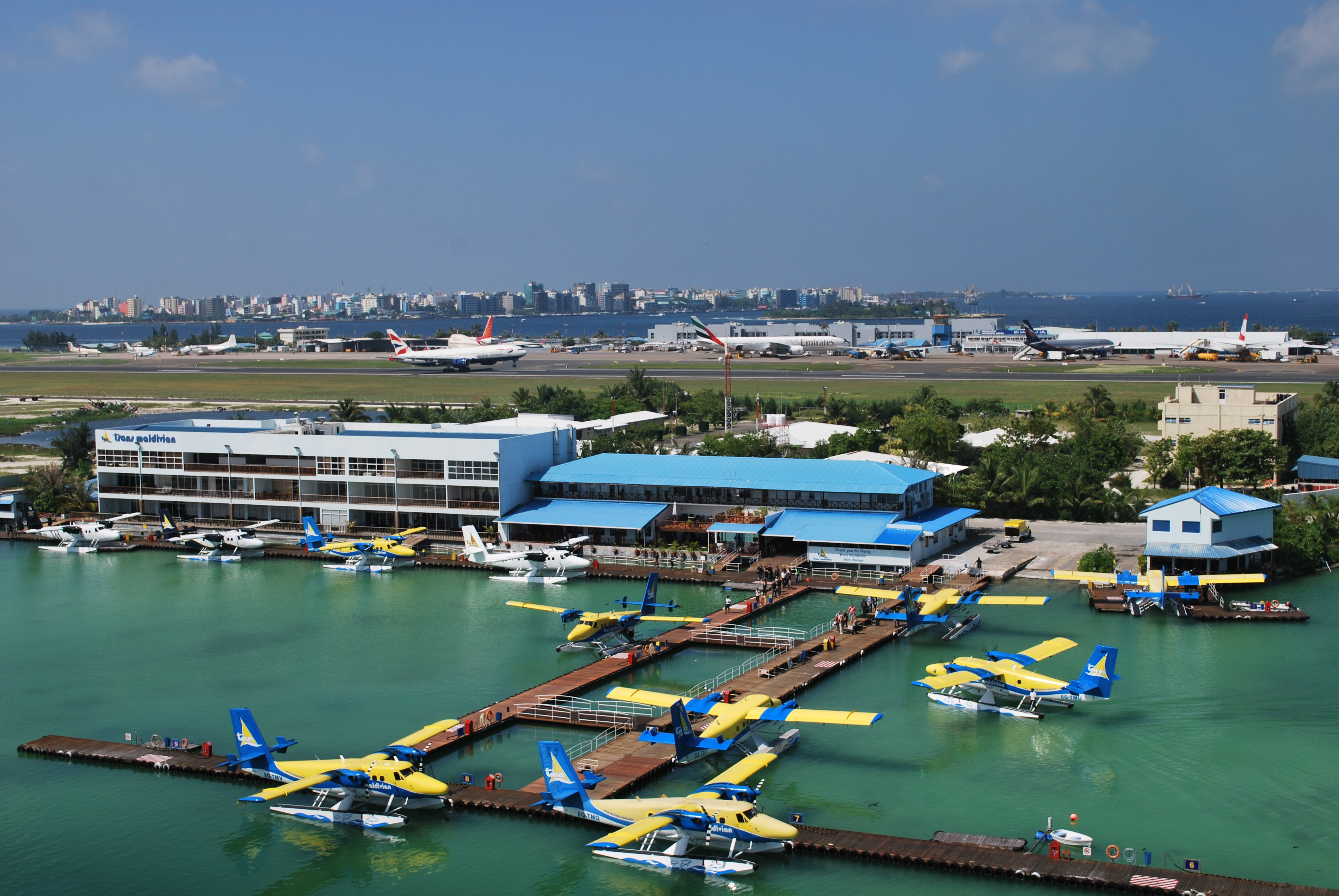 TMA Terminal at Ibrahim Nasir International Airport